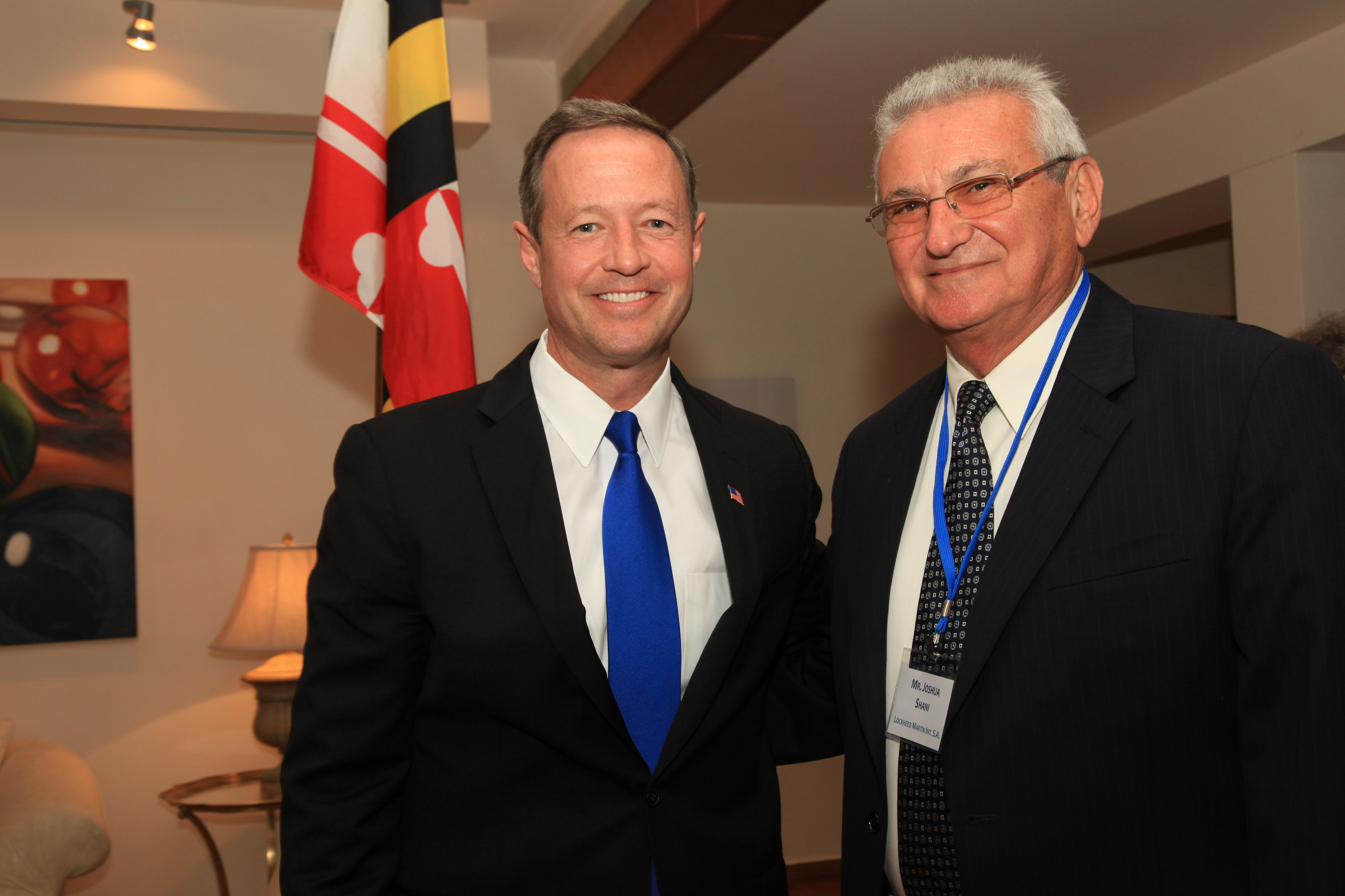 Tel Aviv Stock Exchange, Yair Lapid, US Ambassador, Reception by staff at Israel